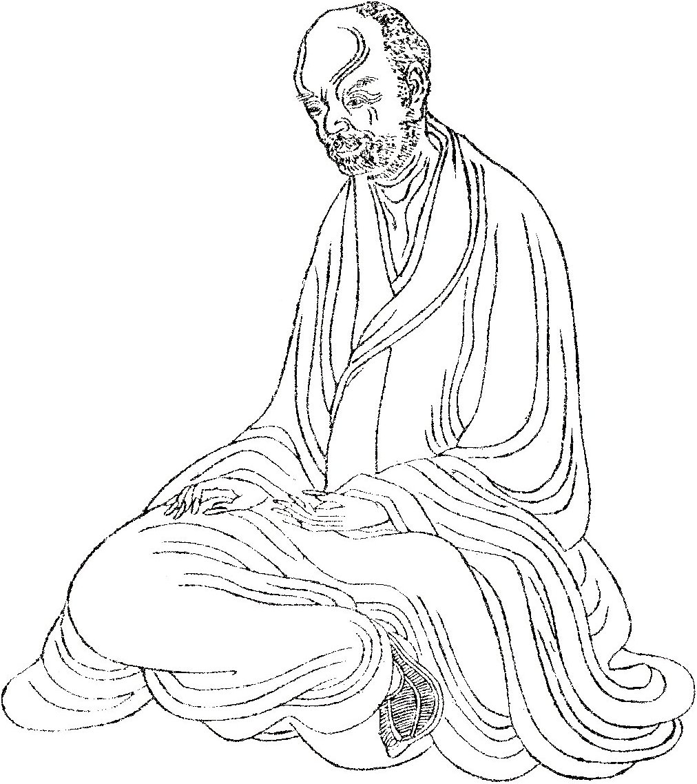 Hui Yuan（慧遠）was a hierarch of the Chinese Buddhism in the Eastern Jìn Dynasty（東晋）.